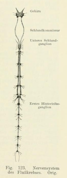 Nervous system of European crayfish (Astacus astacus).